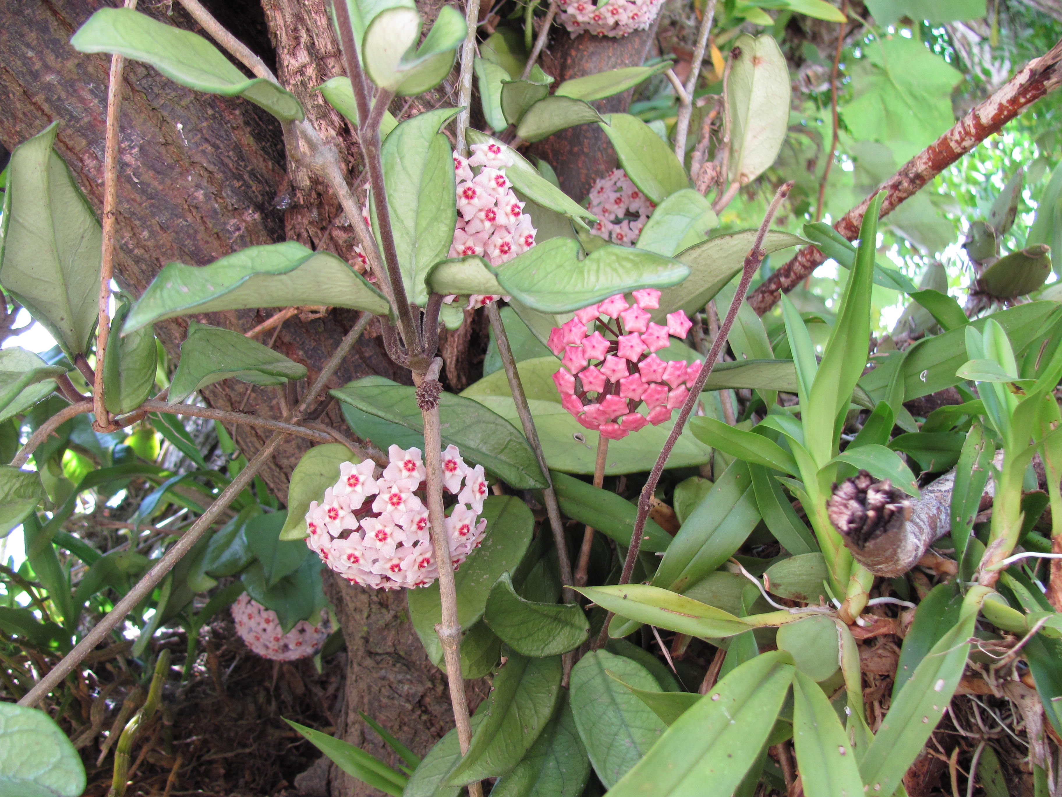 The flower on its two stages.